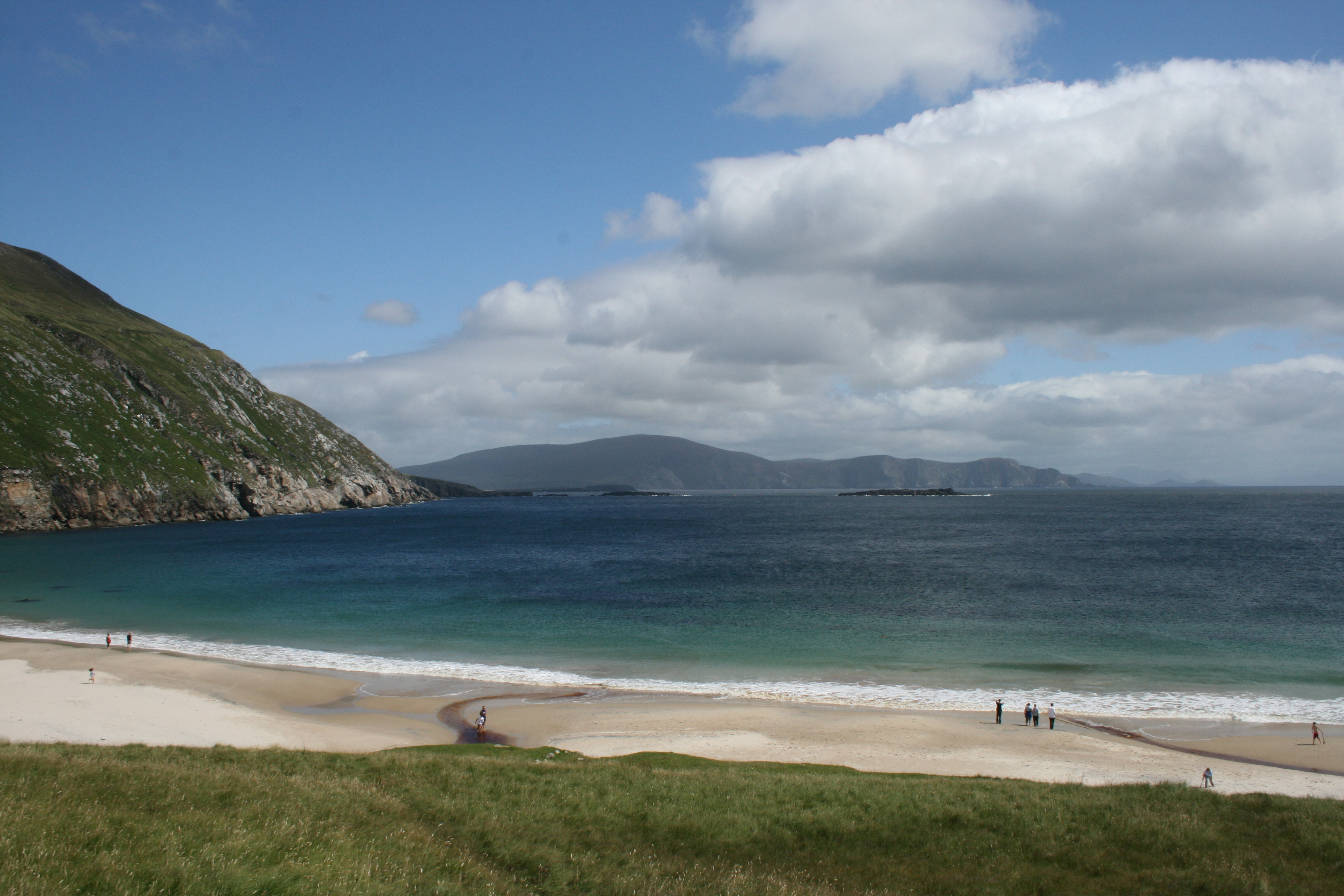 Keem Bay, Co. Mayo